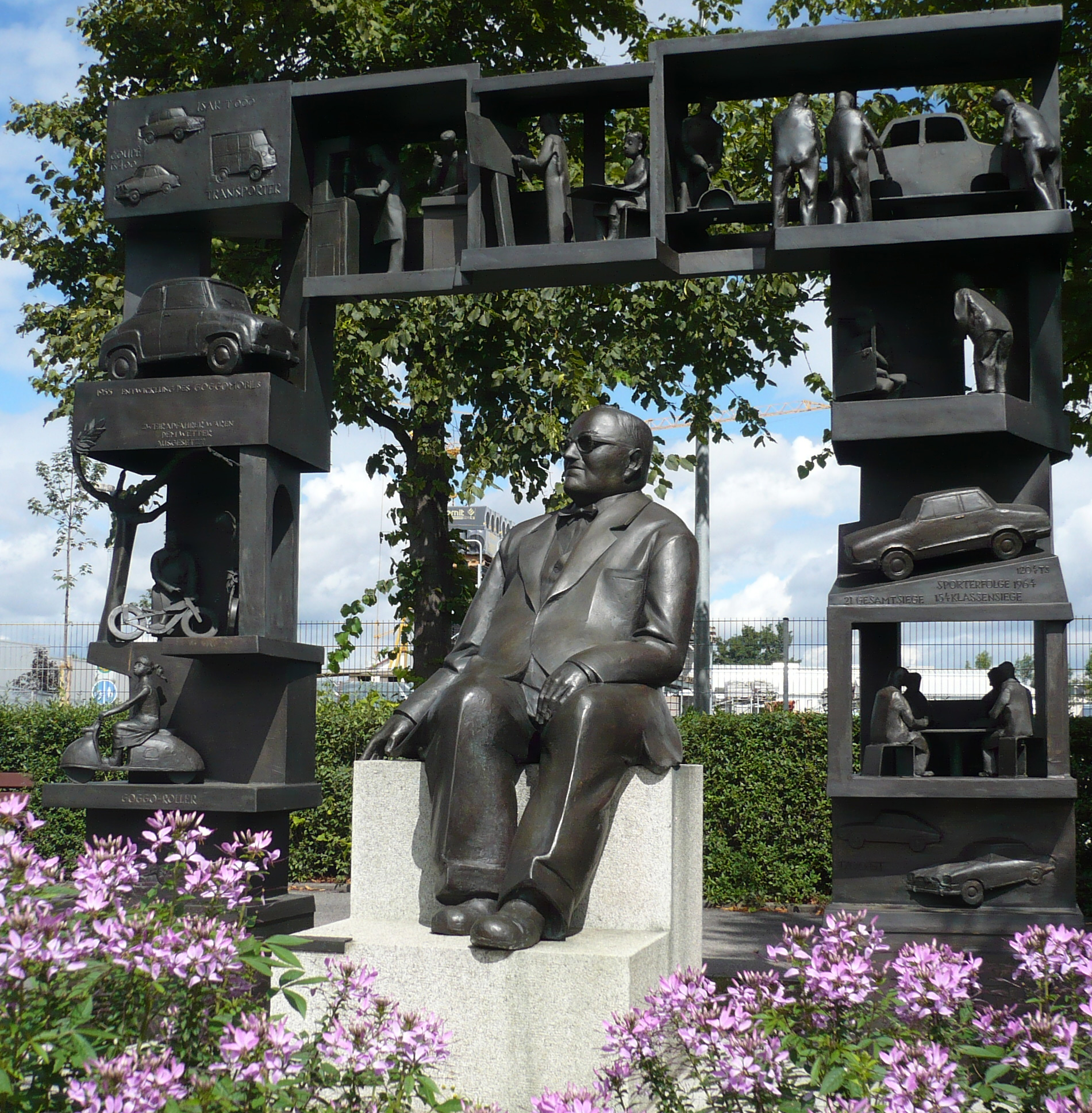 Photo: Dingolfing - Hans Glas memorial